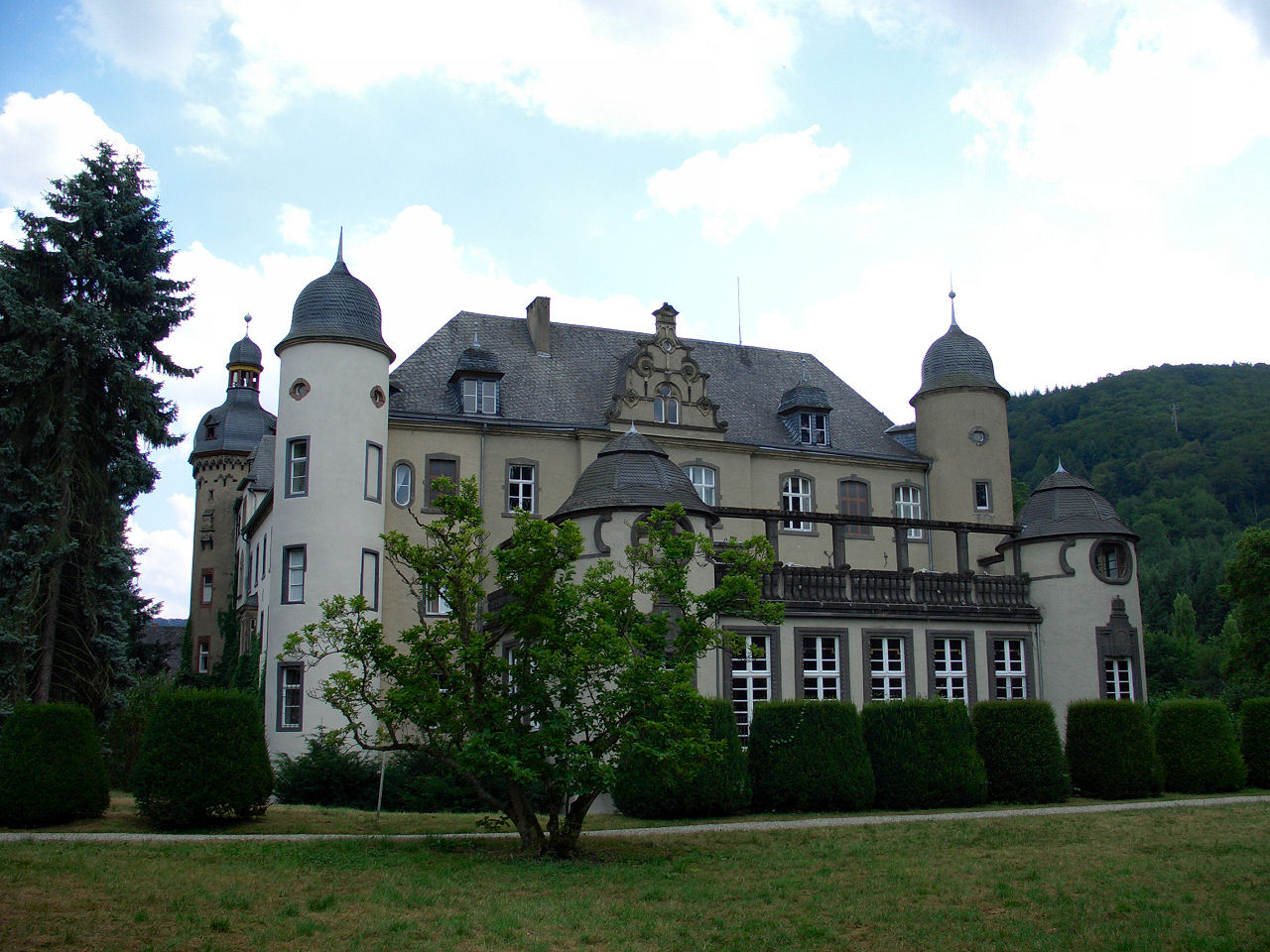 Burg Namedy in Andernach